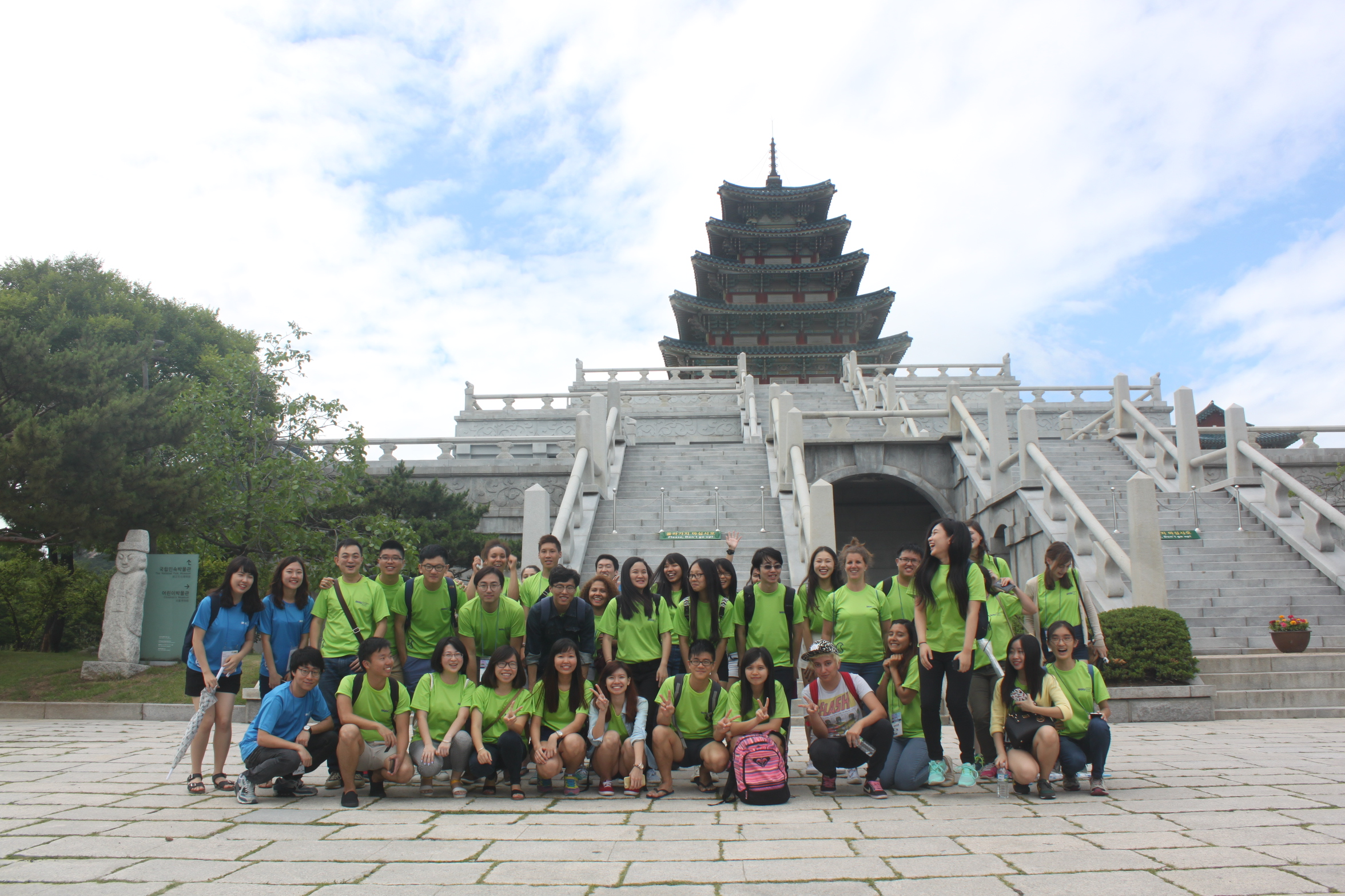 This is a picture from SKKU's International Summer Semester field trip to Gyeongbokgung Palace in Seoul, South Korea.